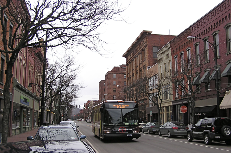 Market Street in downtown Corning, New York